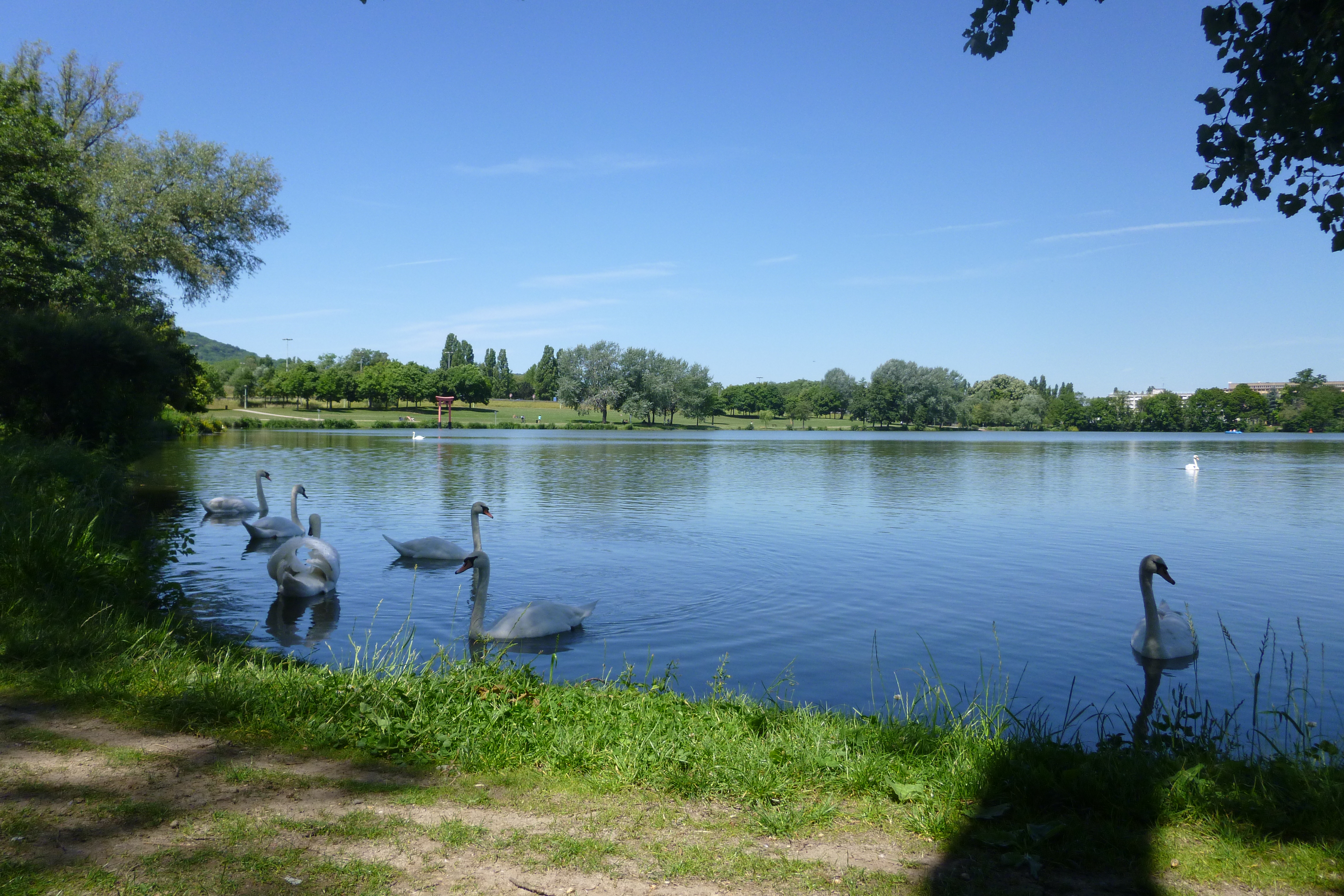 View of the water basin of Metz, with swans on the water